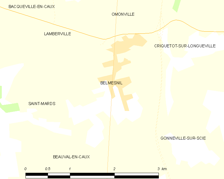 Map of French municipality Belmesnil